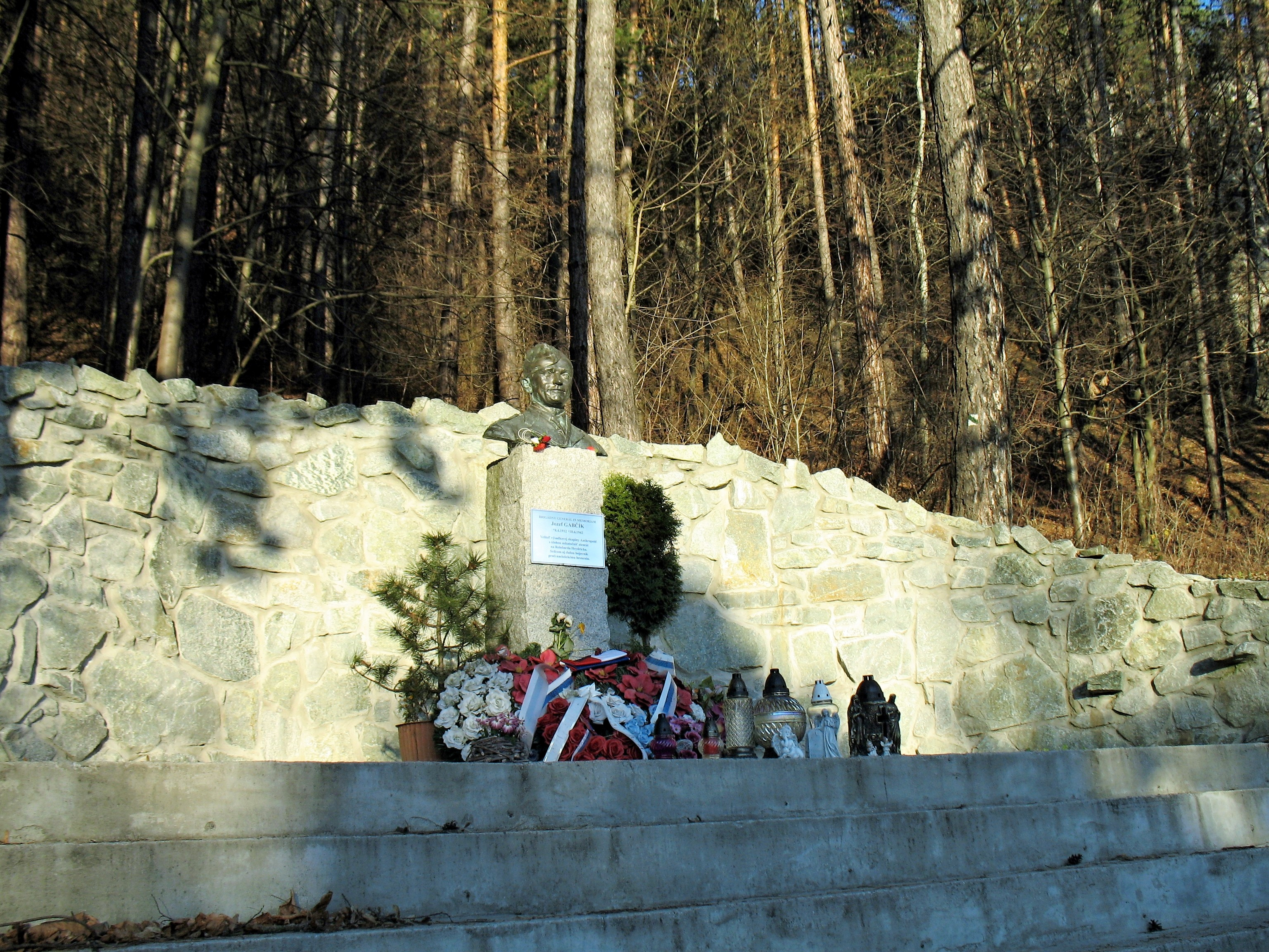 Memorial to Jozef Gabčík in Poluvsie, Žilina District, Slovakia